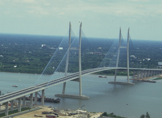 Mỹ Thuận Bridge